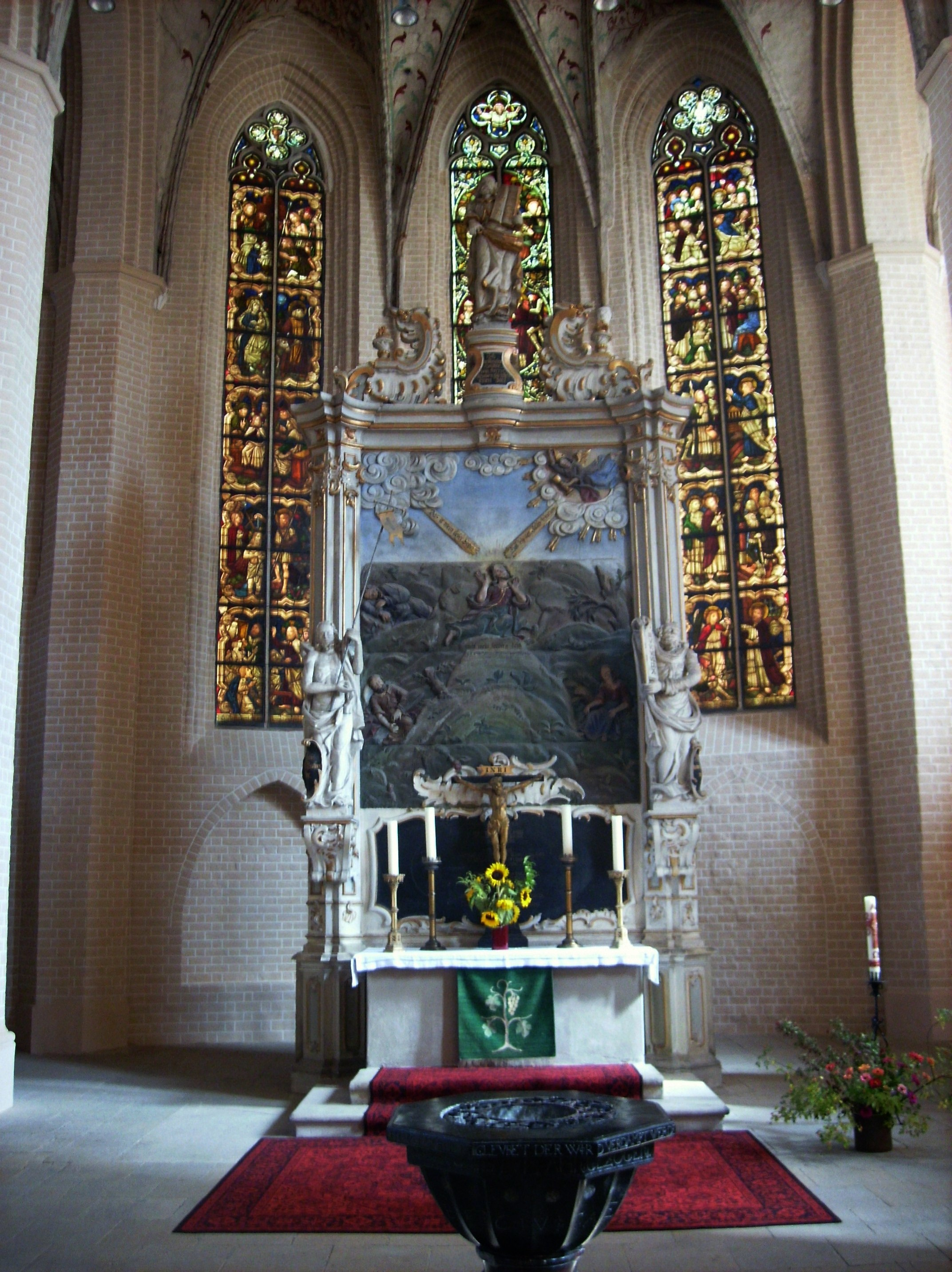 Choir and altar of St. Mary's church in Herzberg/Elster (Elbe-Elster district, Brandenburg)